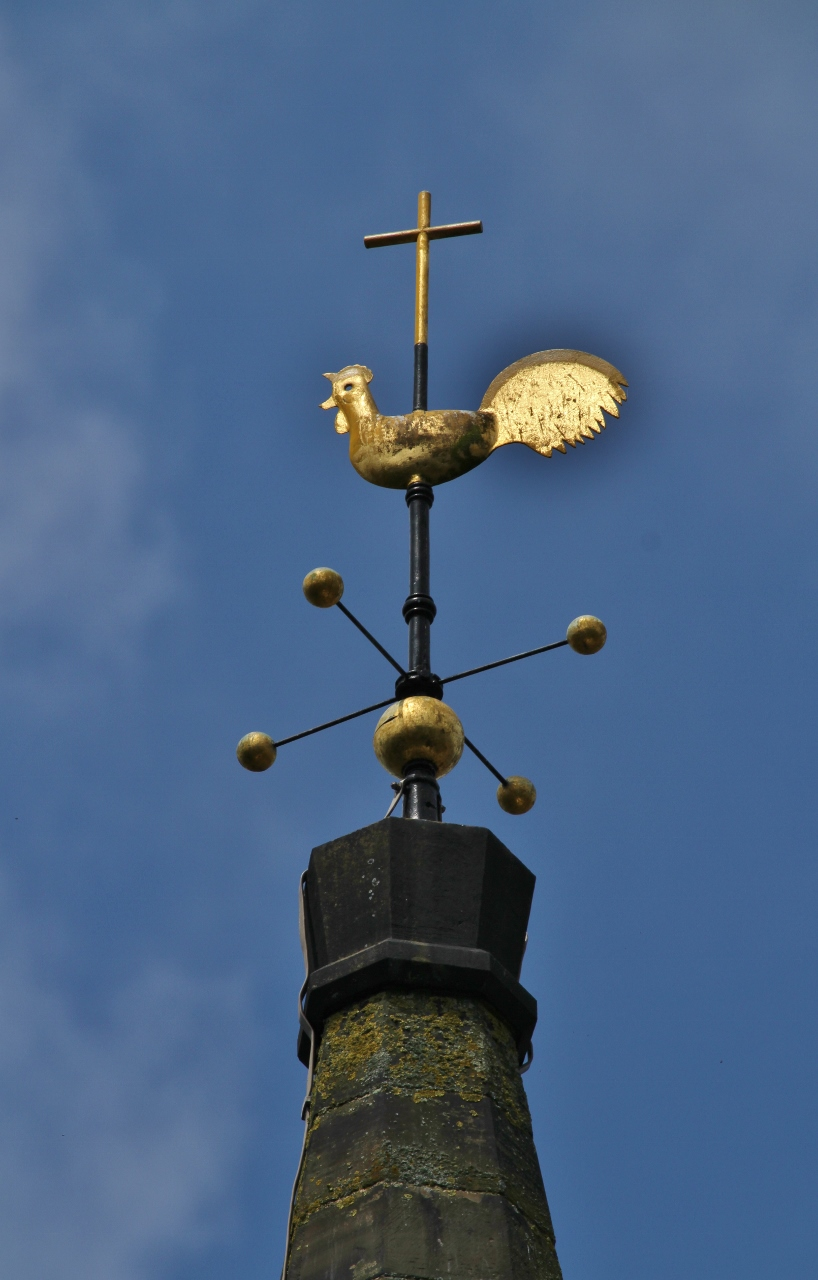 Weathercock on the spire of the parish church of St Mary the Virgin, Handsworth Road, Handsworth, South Yorkshire